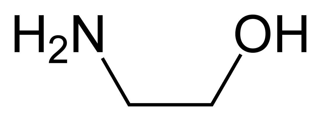 Skeletal formula of the ethanolamine (2-aminoethanol) molecule, C2H7NO, in a bent conformation that more accurately represents its geometry in the gas phase.